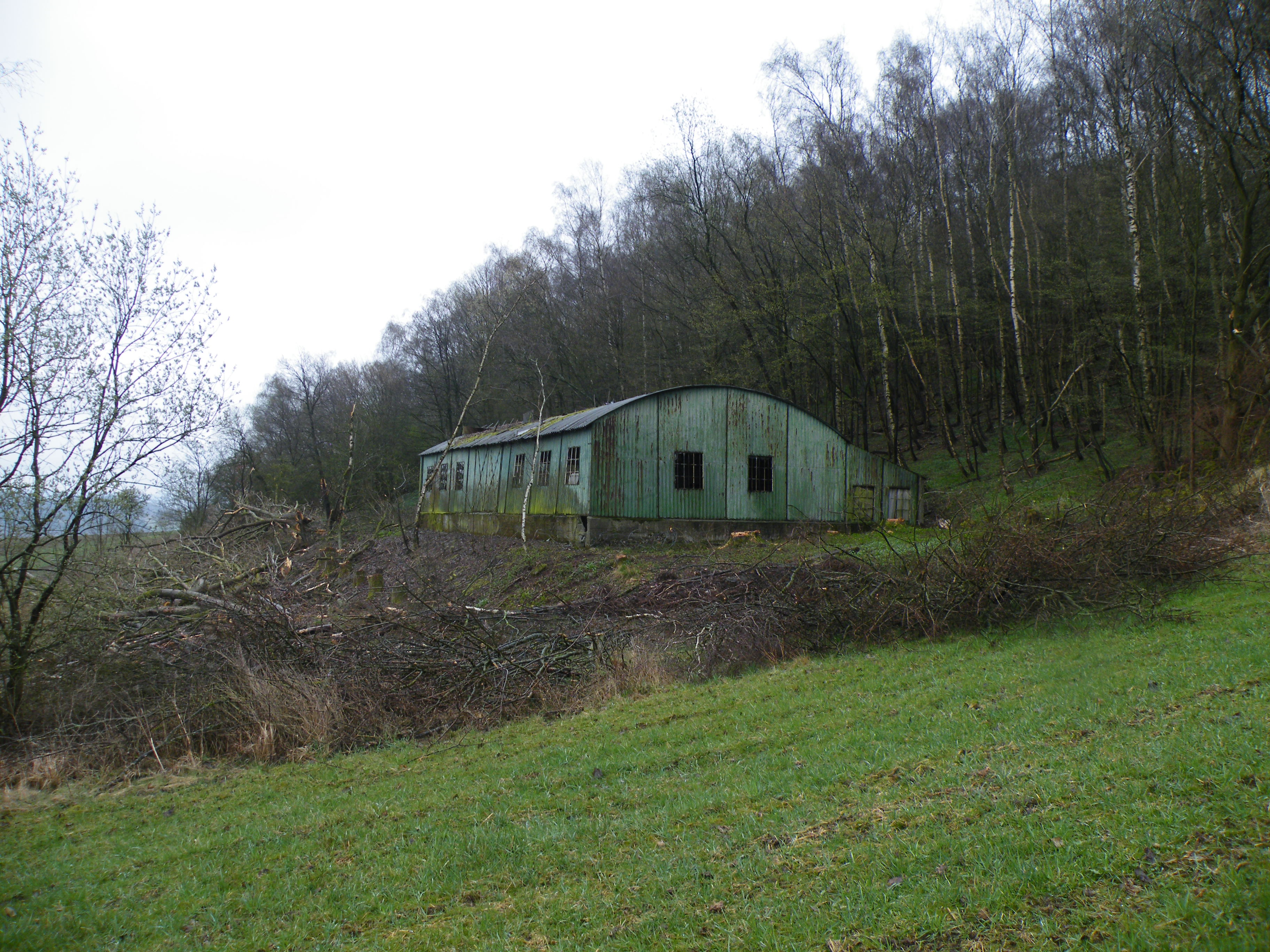 Ehemaliger Hangar des Segelplatzes Seidfeld im Stadtgebiet von Sundern (NRW, D). Hangar seit Jahren ungenutzt.